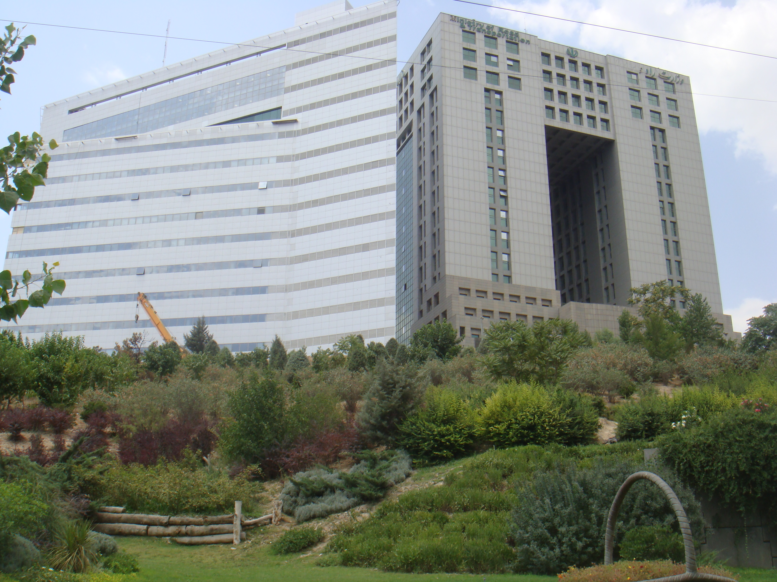 Ministry of Road and Transportation (Tehran)